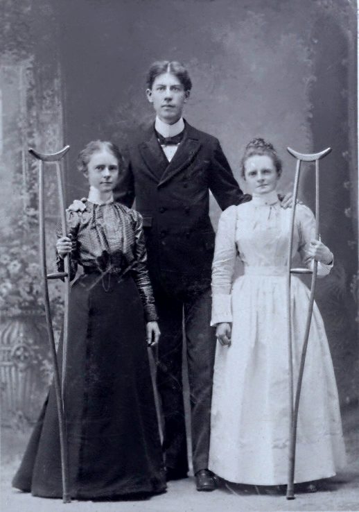 Bessilyn Johnson (left) and a nurse flank Bessie's husband, Albert Mussey Johnson, while holding his crutches, which Albert required after severe injury in a train accident in 1899.